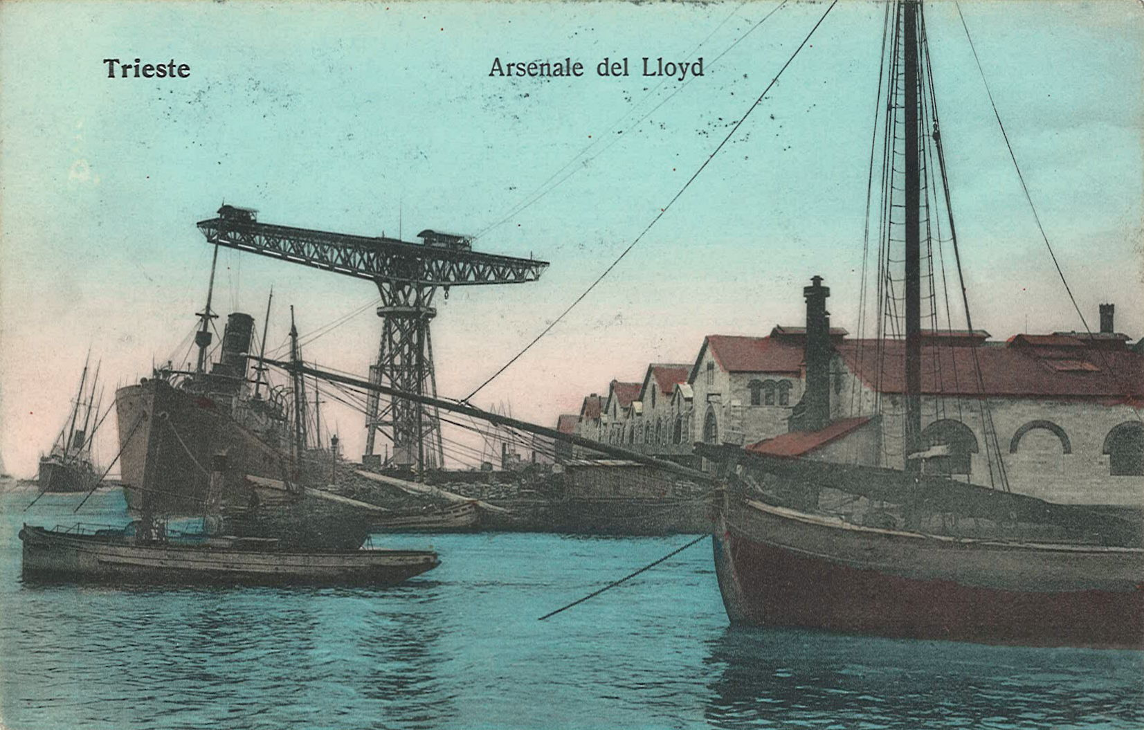 Picture postcard (Austrian Lloyd, before 1914, unknown painter), Lloydarsenal with a shipyard crane